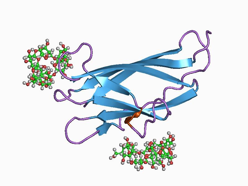 Cartoon representation of the molecular structure of protein registered with 1ac0 code.